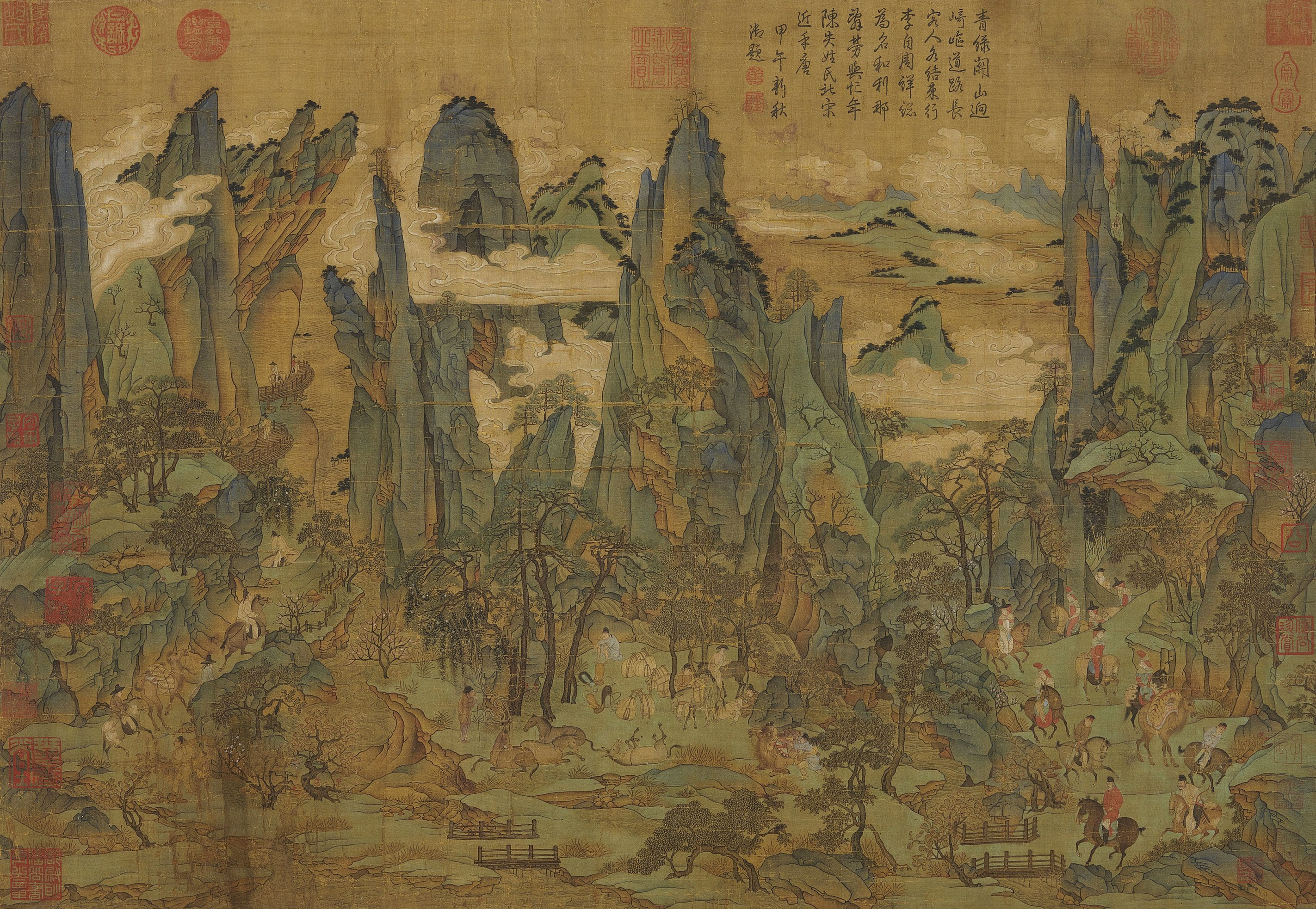 Emperor Ming-huang's Flight to Szechwan. Anonymous, T'ang dynasty Hanging scroll, 55.9×81cm This painting depicts what happened in the An Lushan Rebellion that had taken place in the Tianbao era of the T'ang dynasty. Before rebel troops captured the capital of Chang'an (Xi'an), Emperor Minghuang (Xuanzong) escaped the chaos by taking an imperial journey to Shu (Sichuan). Historical records mention that the entourage crossed small bridges below lofty cascades on narrow plank paths so frightening that even the horses feared to go. Such a scene is depicted here, in which the red-robed figure is none other than Emperor Minghuang. This painting is also known as "Picking Gourds," and related paintings ascribed as such appear in Sung and Yuan dynasty records, with many paintings surviving that are similar in composition to this work. The brushwork still preserves the stylistic features found in T'ang dynasty to Five Dynasties period. However, in terms of form, it exhibits the ideals of landscape composition from the Sung dynasty. The work is carefully and meticulously done throughout with beautiful colors, making it worthy of being considered a classical masterpiece of early blue-and-green landscape painting.